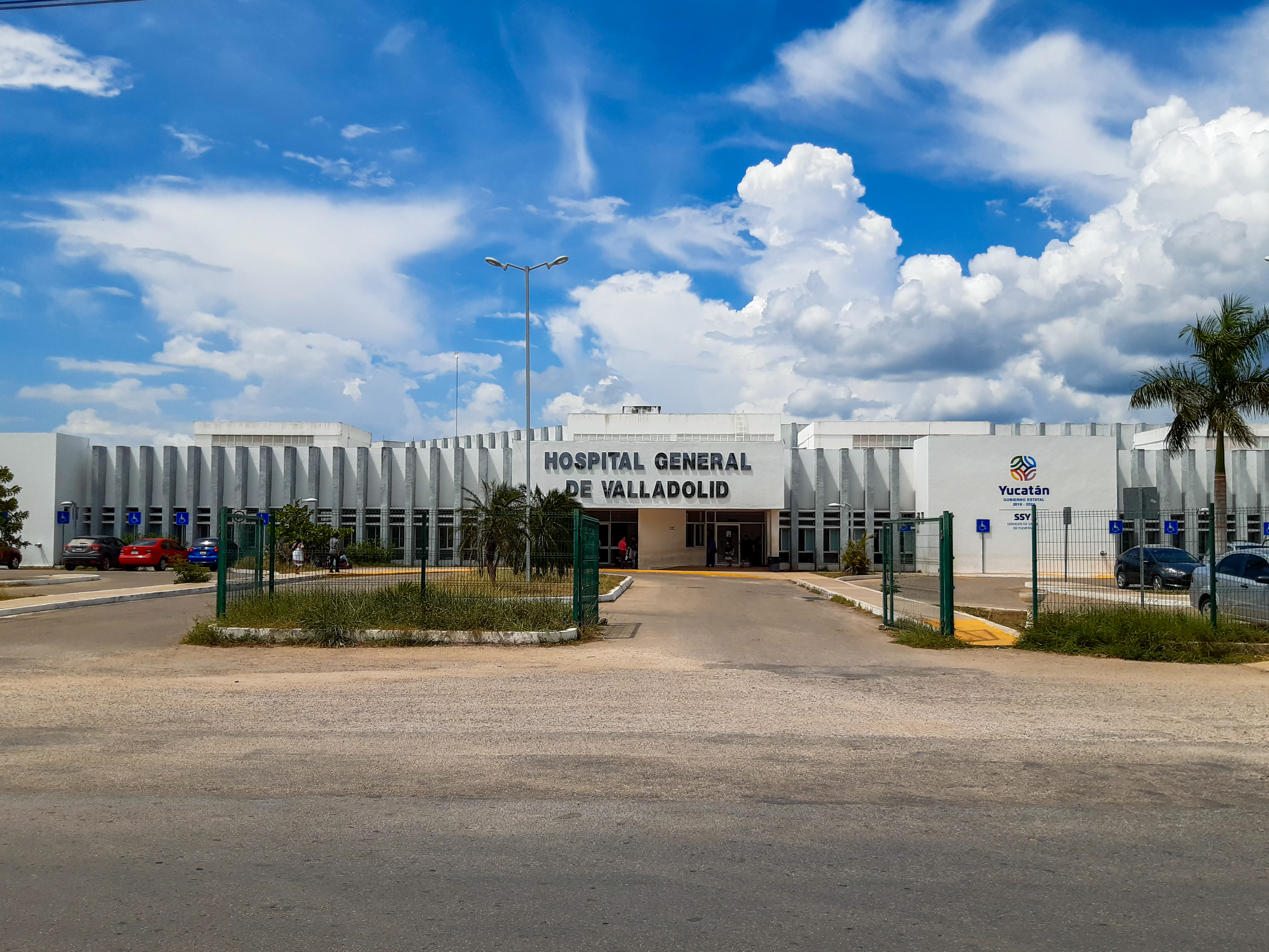 Hospital in Valladolid, Yucatan.